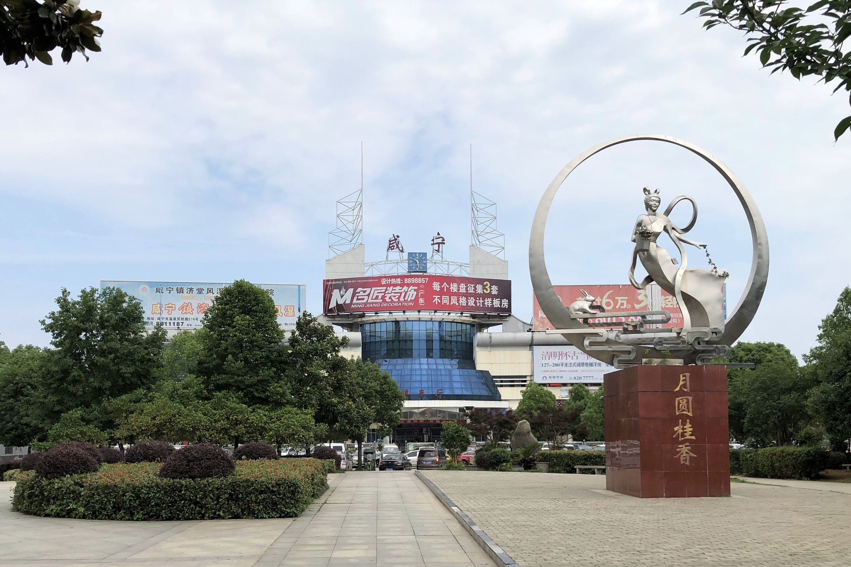 中文（中国大陆）: Xianning Station